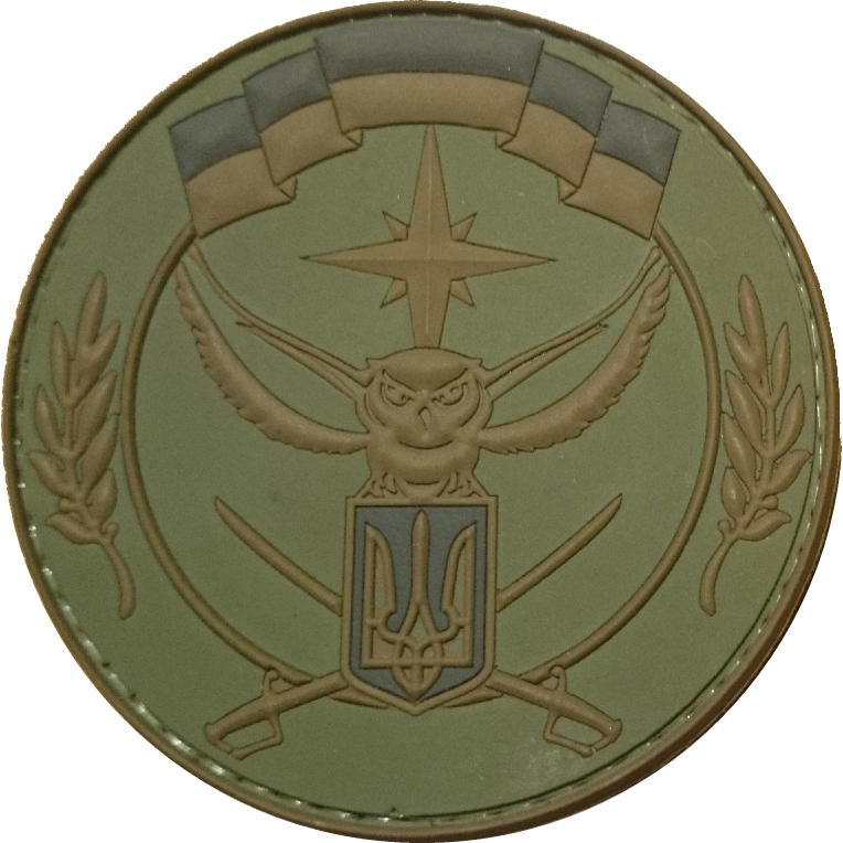 Shoulder Sleeve Insignia of the 10th Separate Detachment of Special Purpose